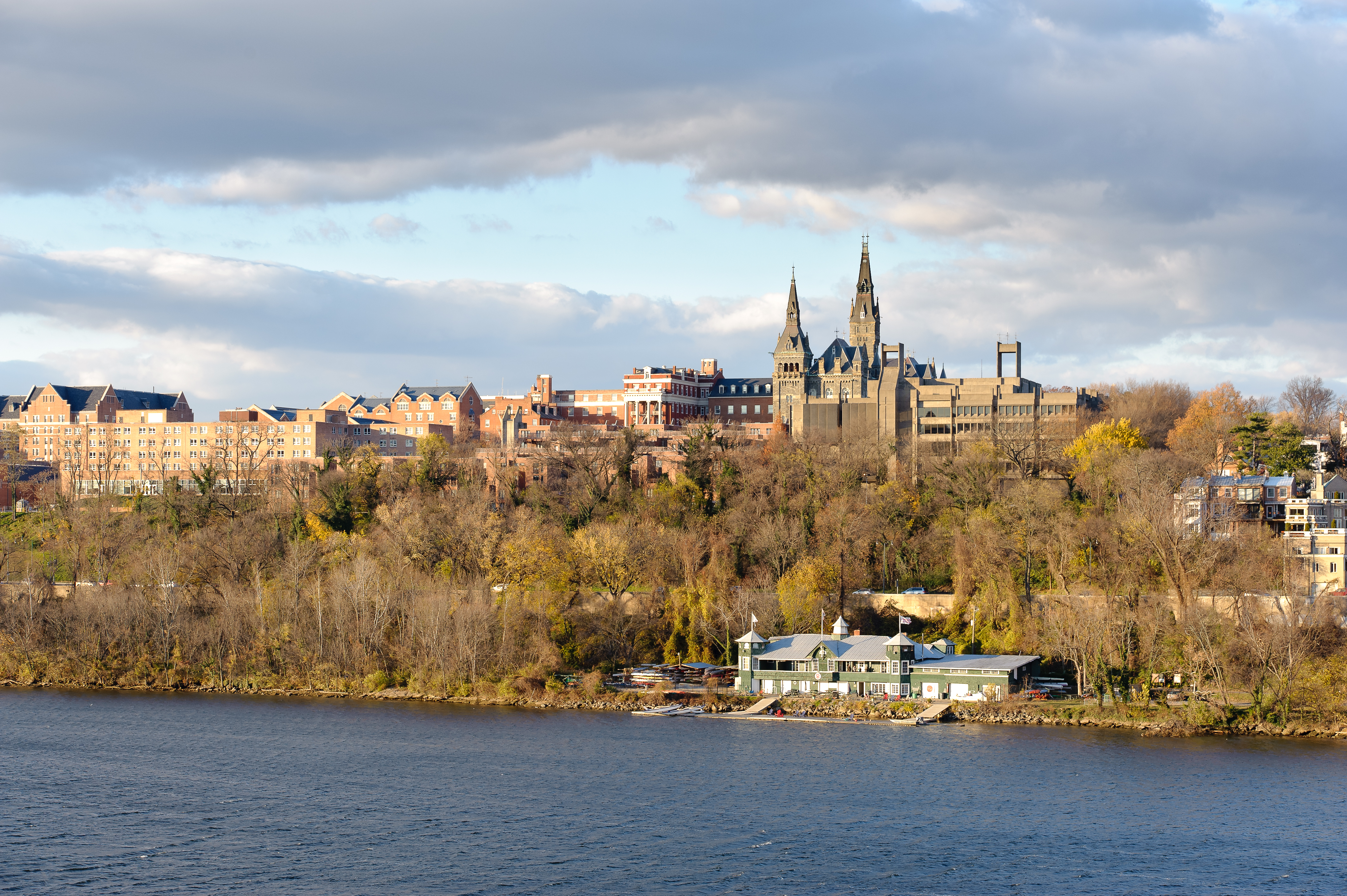 Georgetown University in Washington, D.C. as seen from from Key Bridge